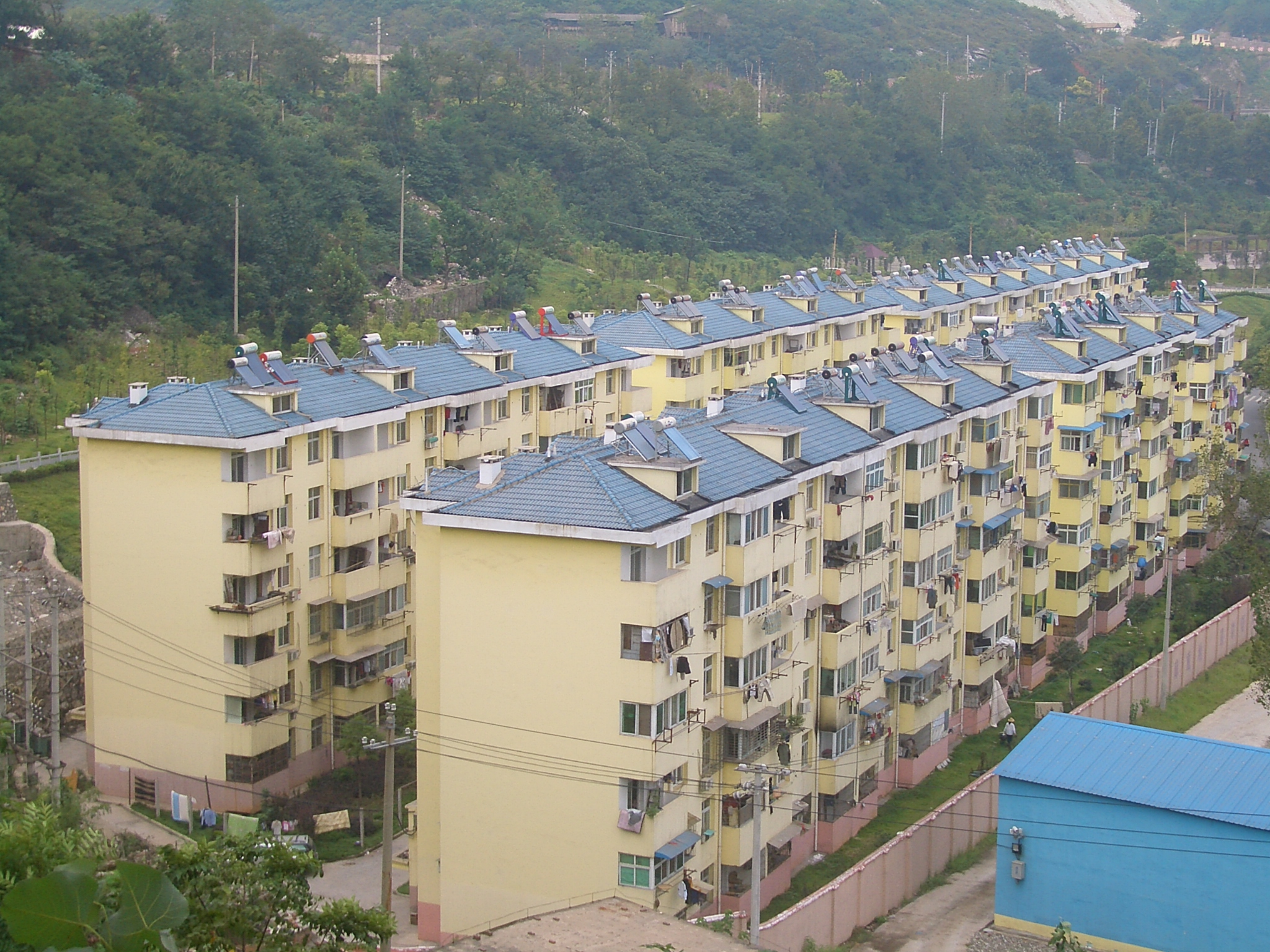 A new neighborhood in Tieshan (Huangshi Prefecture-Level City, Hubei). Typically for Hubei, the buildings are equipped with solar water heaters.